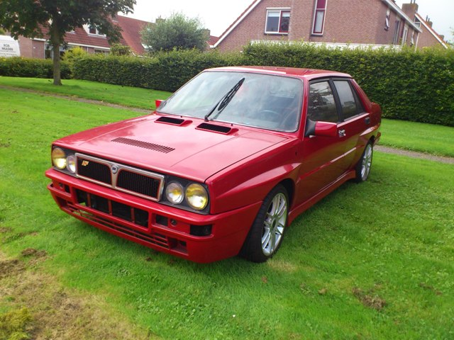 Prisma Montecarlo,omgebouwt tot HF turbo